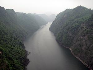 Wu River in Category:Wu Gorge —Chongqing, southern China. Tributary of the Chang Jiang (Yangtze River).